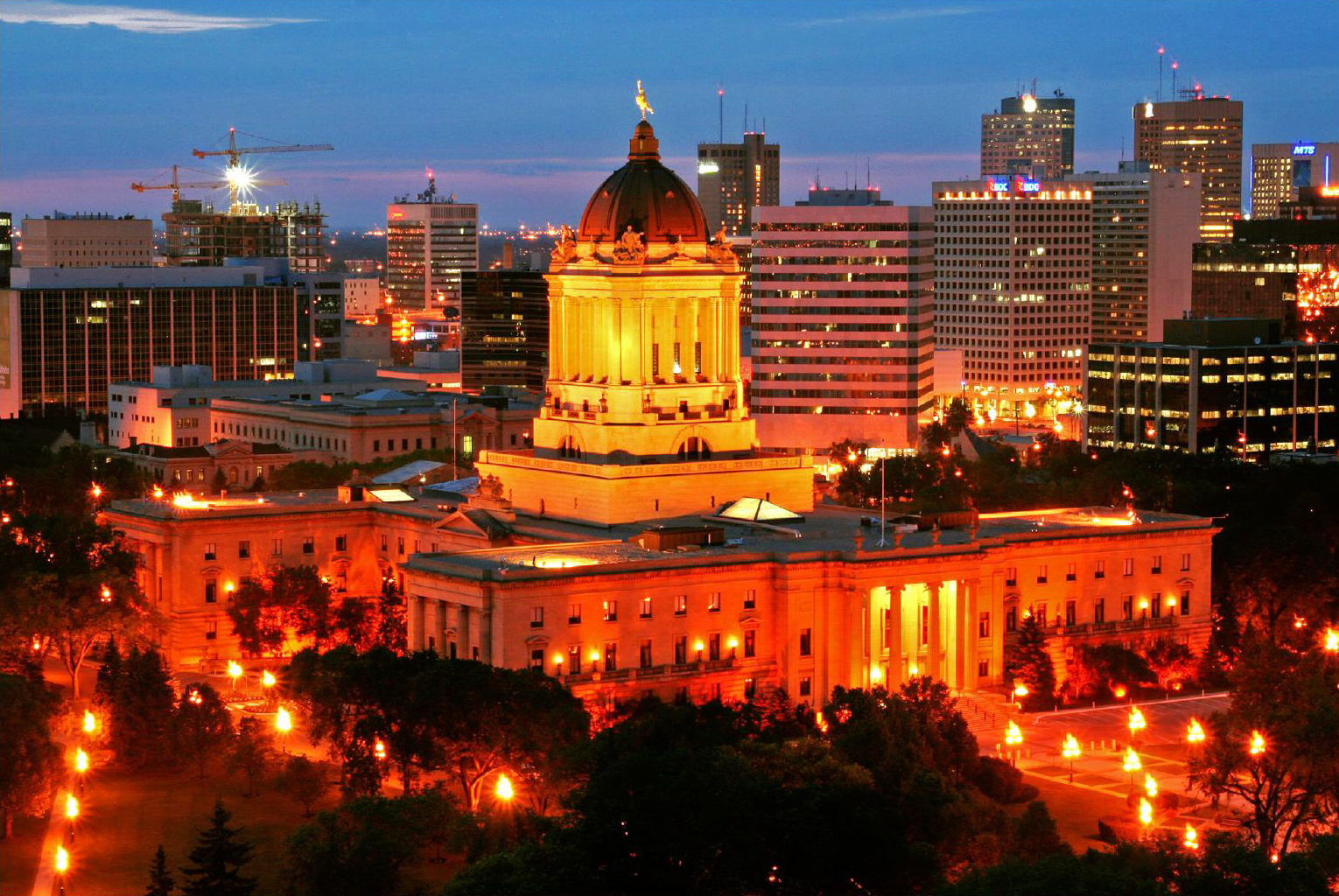 Legislature